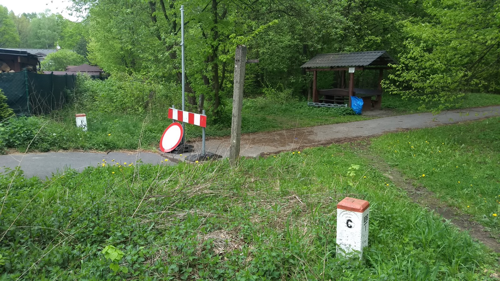 Wymysłów-Mizerov border crossing during COVID-19 pandemic.